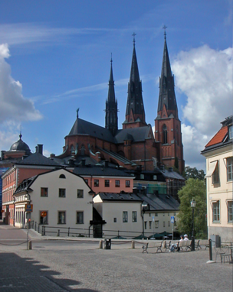 Uppsala Cathedral, seen from the other side of the Fyris river.